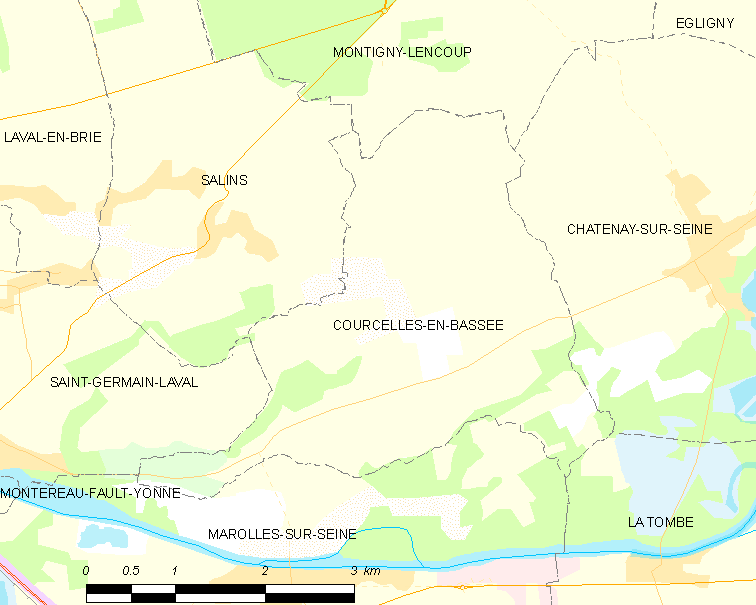 Map of French municipality Courcelles-en-Bassée